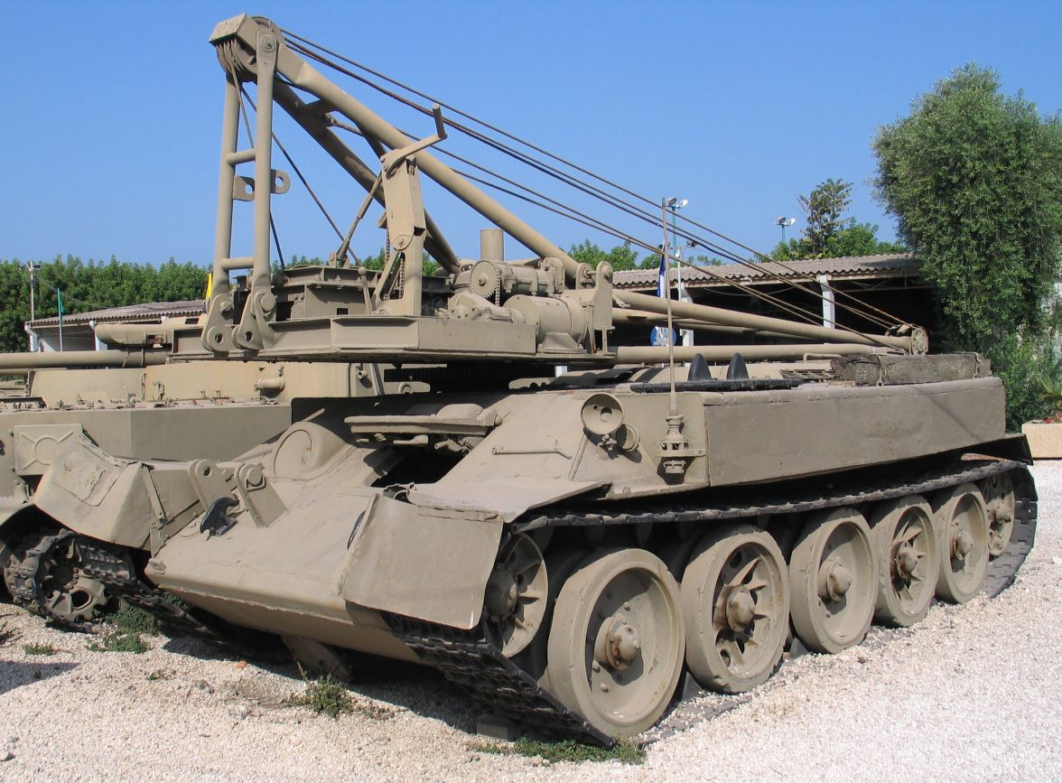 Description: Soviet self-propelled hoisting crane SPK-5 based on T-34 chassis in Batey ha-Osef Museum, Tel Aviv, Israel. 2005. Source: Photo by me, User:Bukvoed.